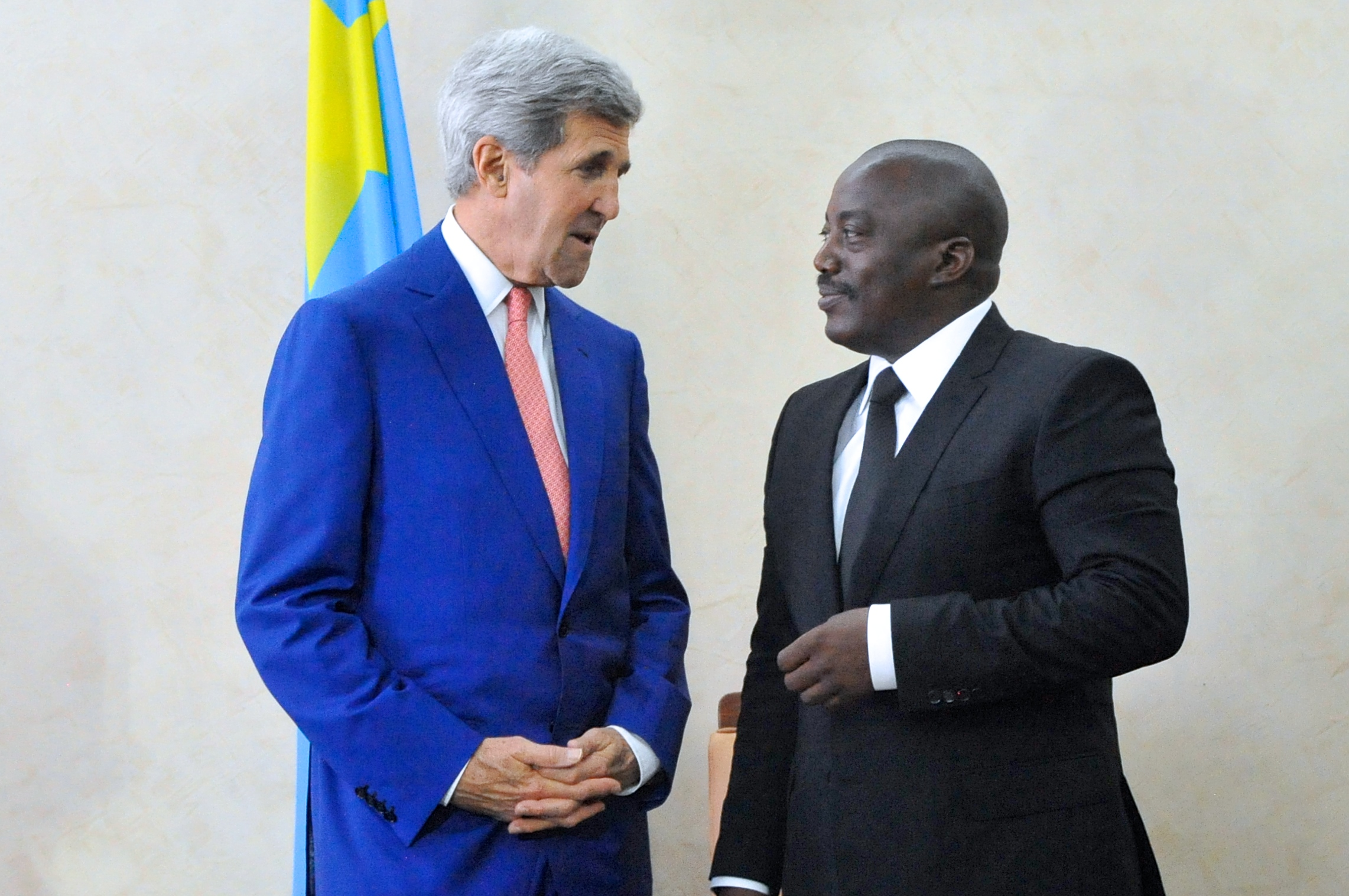 U.S. Secretary of State John Kerry and Democratic Republic of Congo President Joseph Kabila chat before a bilateral meeting in Kinshasa on May 4, 2014.